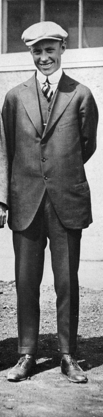 Chick Evans at the 1915 U.S. Open, an event he would win the following year.